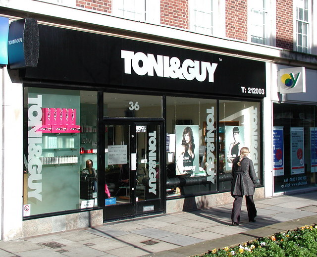 36 Paragon Street, Hull Toni&Guy, opposite Victoria Galleries and the northern end of Chariot Street.